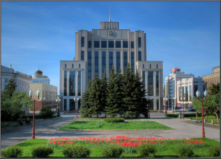 Cabinet of Ministers Tatarstan at Svobody square of Kazan